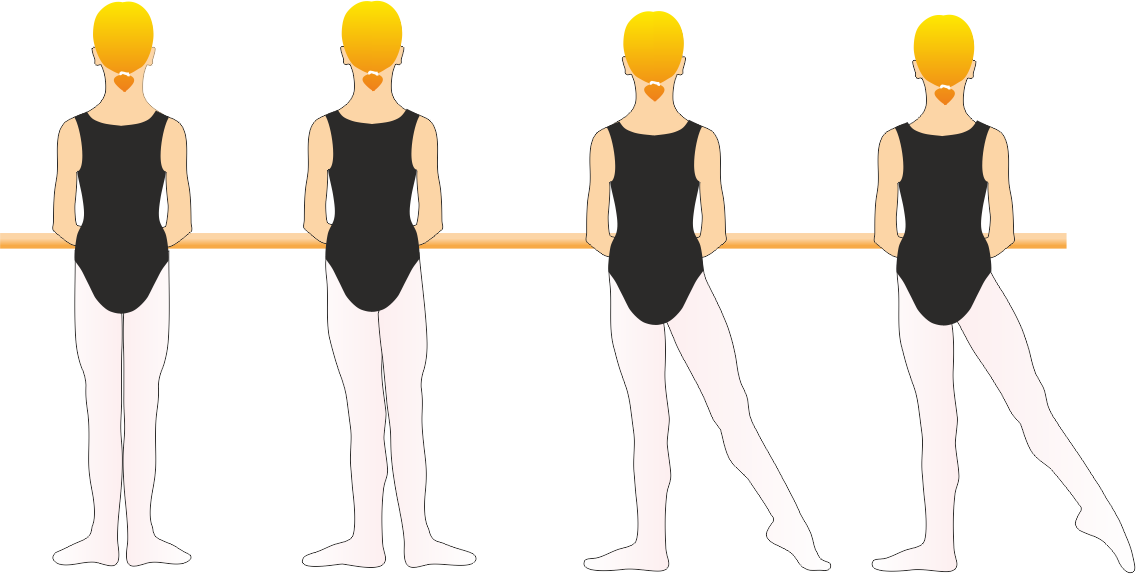 Ballet barre exercises: Battement tendu